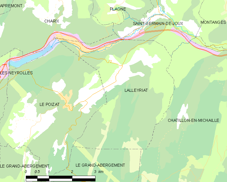 Map of French commune: Lalleyriat Map commune FR insee code 01204.png